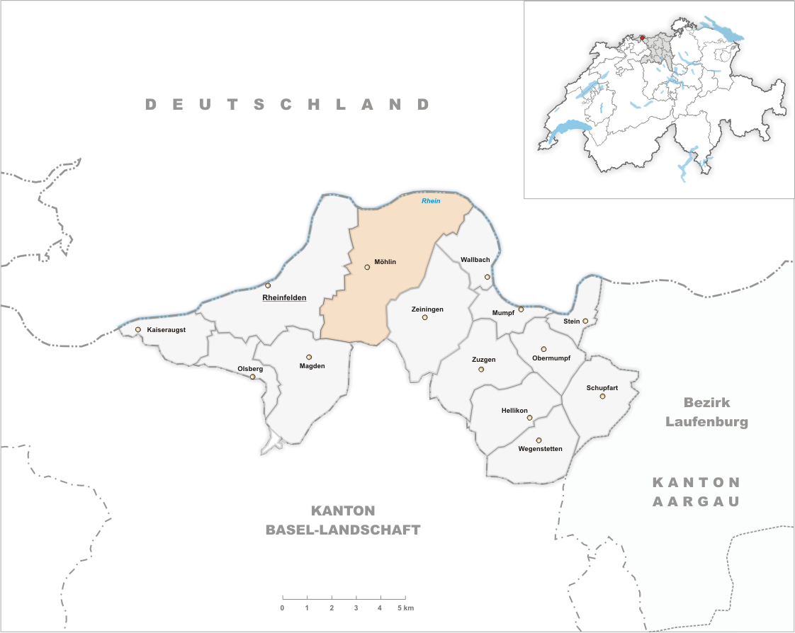 Municipality Möhlin